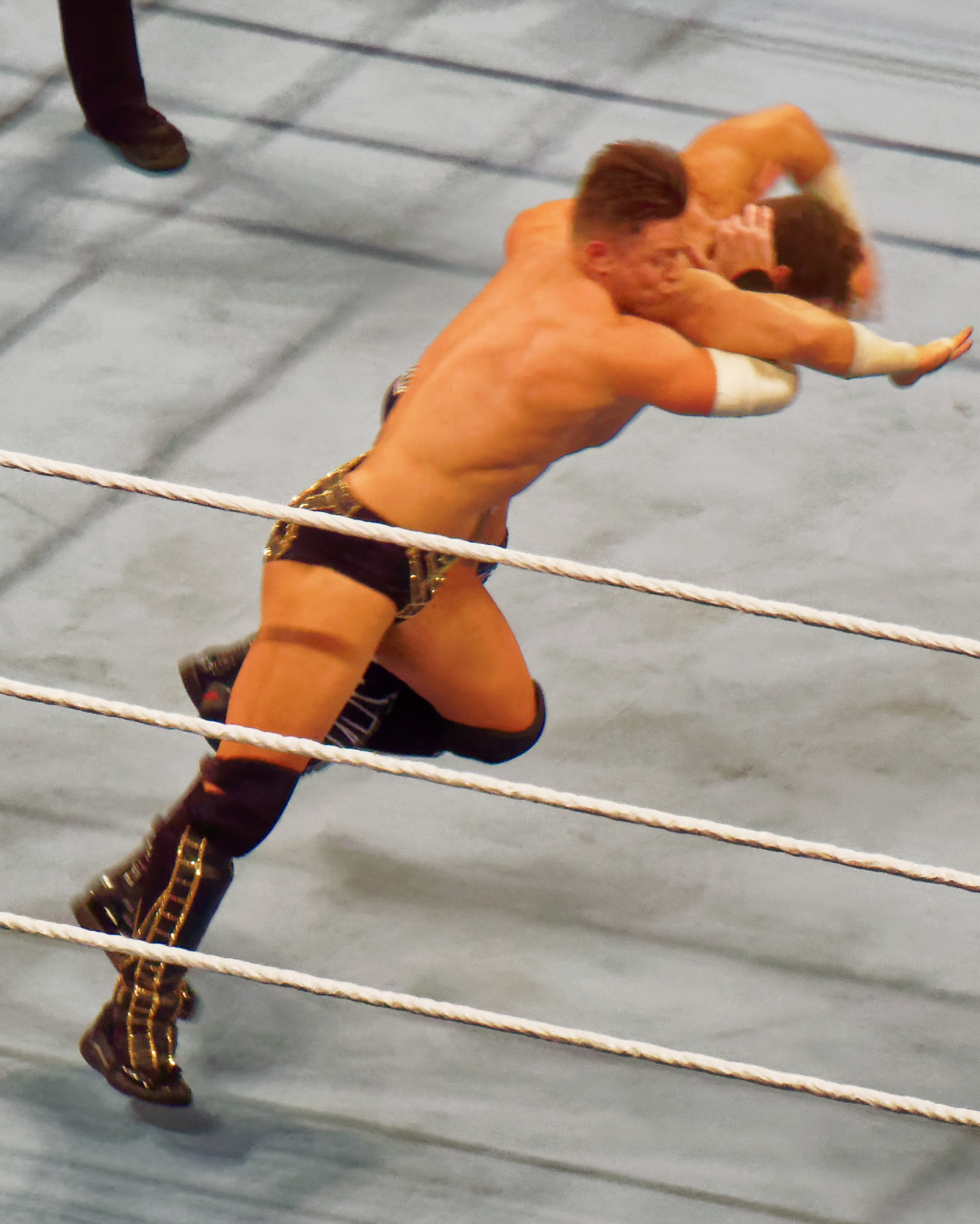 The Miz performing his finishing maneuver the "Skull-Crushing Finale" on Zack Ryder.